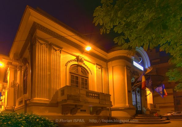 Rectoratul Universității Valahia din Târgoviște - Copyrigh Florian Ispas